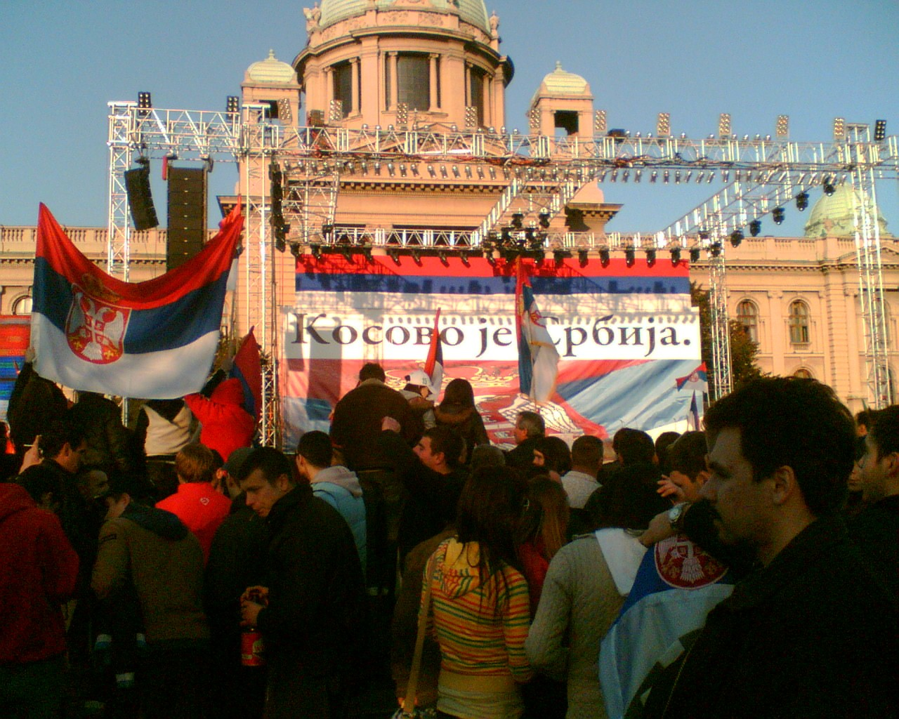 Demonstrators gathering before the government-organised protest meeting outside the old federal parliament building in Belgrade. This photo was taken on my Nokia phone.